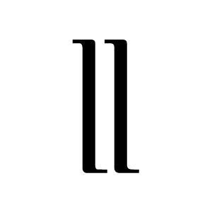 To begin a sentence or paragraph in Javanese.